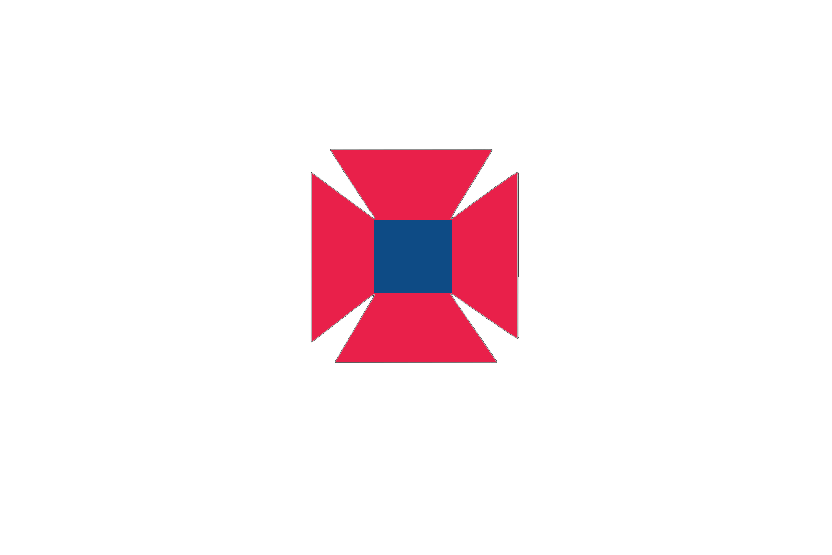 Flag of Douglas Lapraik and Company